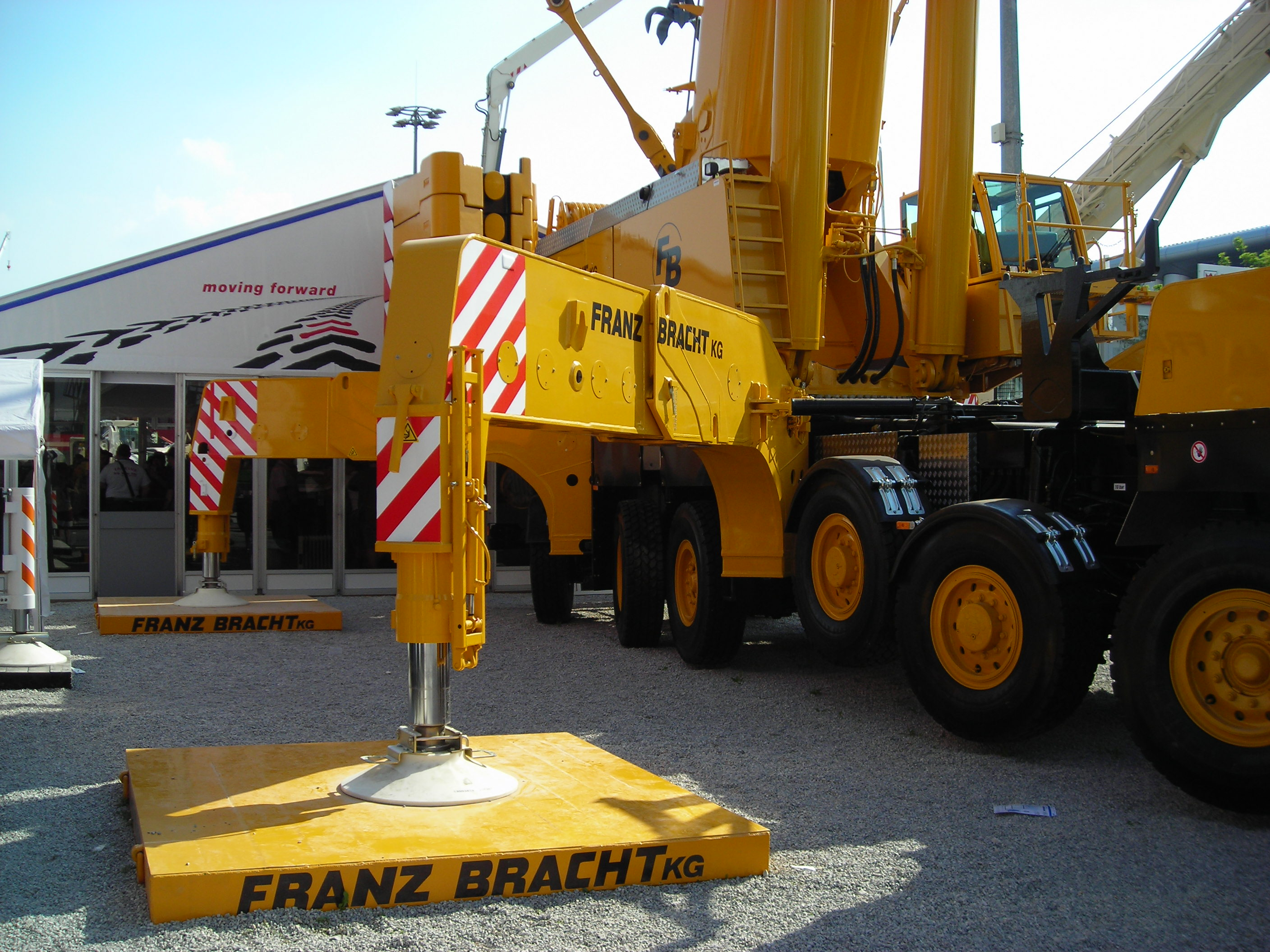 TEREX DEMAG AC-500-2 cantilever handling payloads of 500 tons